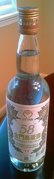 Kaoliang liquor